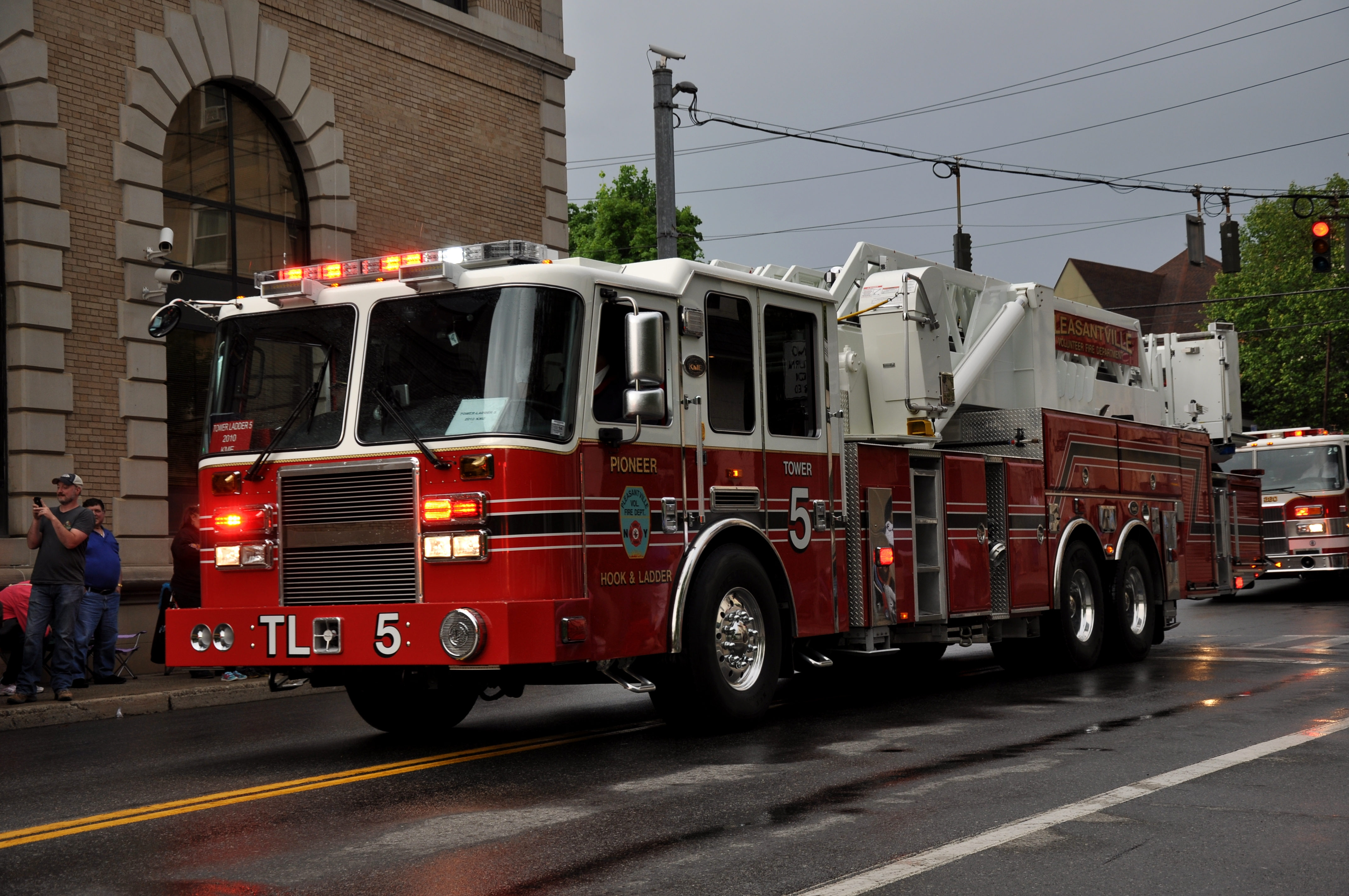 Pleasantville NY fire vehicle. I took this at the Pleasantville Firefighters' Parade on May 30, 2014.